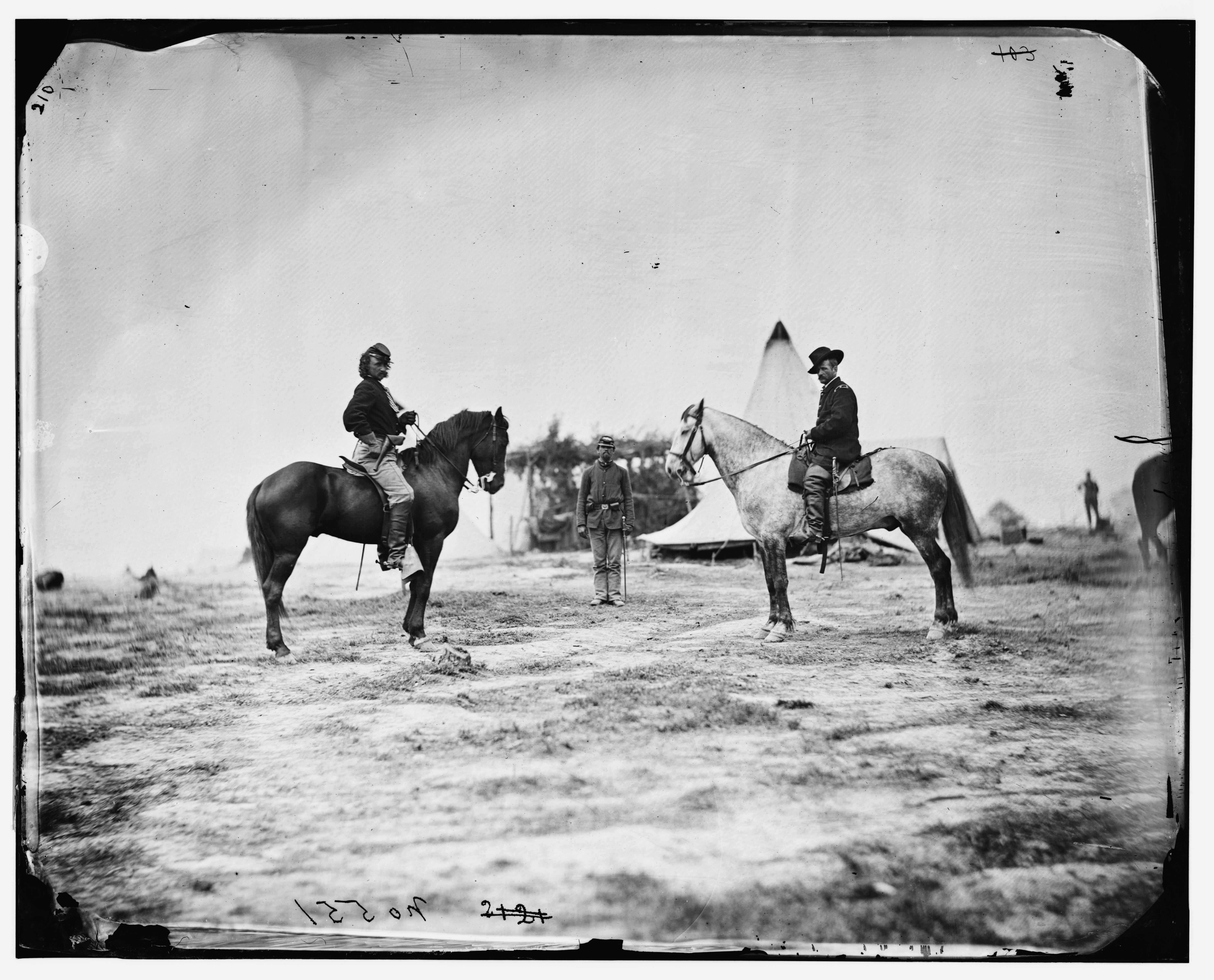 Falmouth, Va. Capt. George A. Custer and Gen. Alfred Pleasonton on horseback.